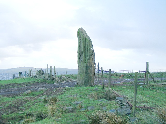 Carreg Bica standing stone Whoever slogged this giant stone up to the top of Mynydd Drumau and stood it here, I doubt they were thinking "This'll make a fine fence post"